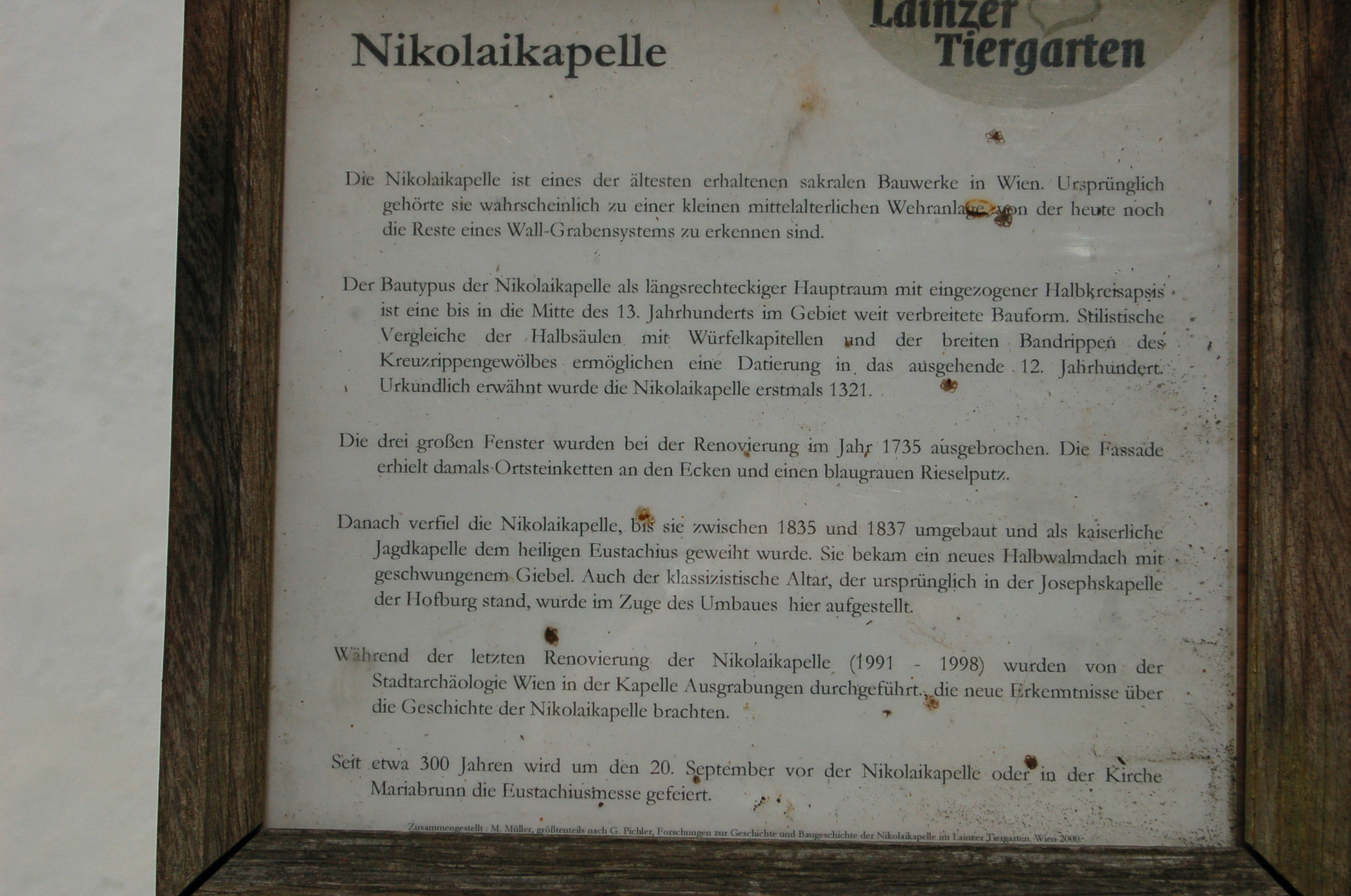 Information plate at Nikolaikapelle in Lainzer Tiergarten, Vienna's 13th district